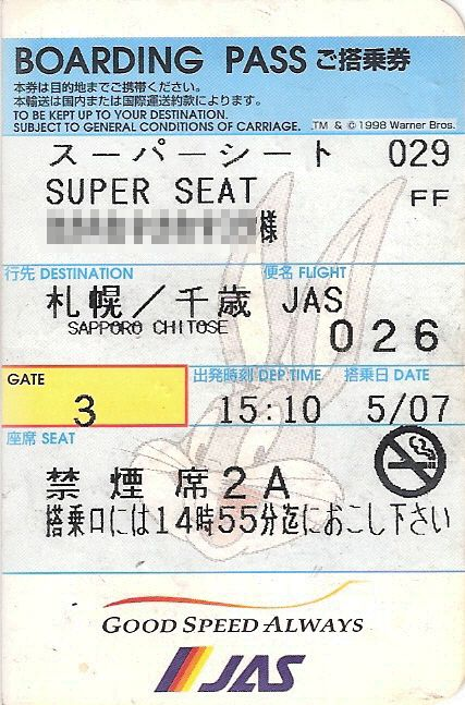 Boarding Pass of Japan Air System